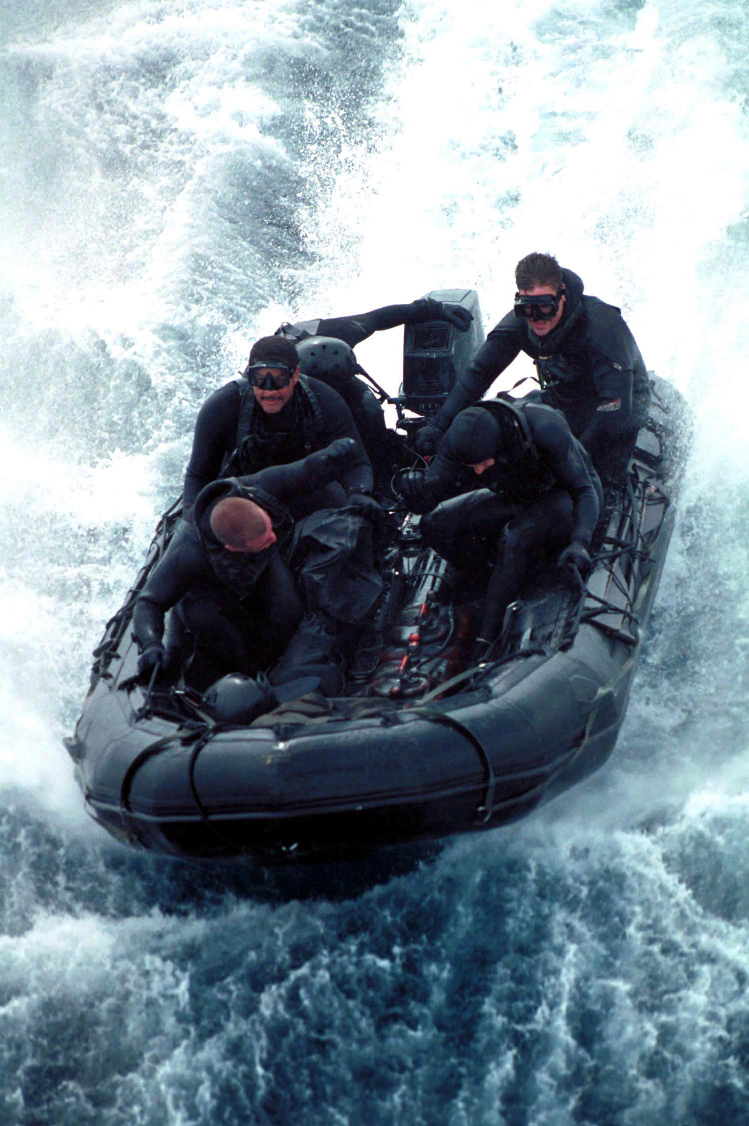 Members of the Sea Air Land Team Five (SEAL5), from Golf Platoon, conduct an exercise in a Combat Rubber Raiding Craft (CRRC) or Rigid Boat Inflatable Hull (RBIH). Base: USS Kitty Hawk (CV-63)